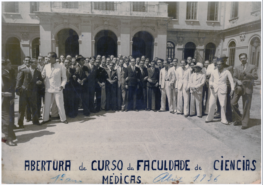 Opening of the 1st Course of the Faculty of Medical Sciences of Rio de Janeiro in April, 1936.